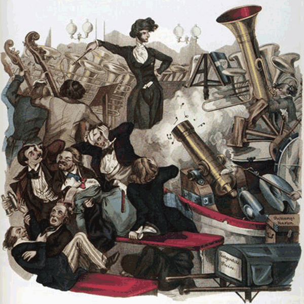 A young composer conducting a concert with a score for gunfire. Caricature by Anton Elfinger (‚Cajetan‘) as supplement of Wiener Theaterzeitung of Adolf Bäuerle. The caricature uses a work of Grandville from Louis Reybaud's novel Jérome Paturot à la recherche d'une position sociale (Paris, 1846); this character of the novel pretends to portray Berlioz (see for instance: Jacques Barzun. Berlioz and his century: an introduction to the age of romanticism - University of Chicago Press, 1982. - P. 202.. Original caption was Heureusement la salle est solide... elle résiste! (Fortunately the hall is solid... it can stand the strain!)